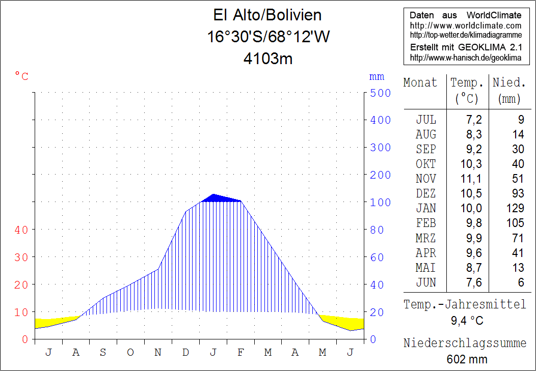 Climate chart in the Walter and Lieth format, metric, °Celsius und millimeters, made with Geoklima 2.1